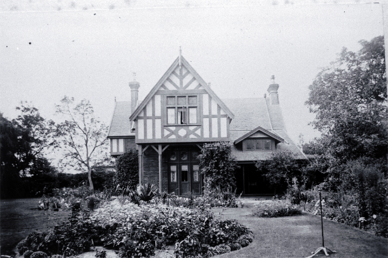 Llanmaes, Welsh for 'the church in the meadow' was designed by Dunedin architect Francis William Petre (1847-1918) and built for a merchant, John Lewis. In 1899 Llanmaes was bought by a doctor, Colin Graeme Campbell. The next owner, 1904-1911, was Dr Charles Chilton (1860-1929), who sold it to a widow, Eliza Vincent. On her death in 1926 her family sold the property to Canterbury College who enlarged and extended the house. From 1926 to 1929 it was the rector's residence. In 1929 it became the headquarters of the Canterbury College Students' Union. The building now houses the Dux de Lux vegetarian restaurant and an inscription on the Montreal Street side commemorates the 1929 extension. (See: The Arts Centre of Christchurch / Glyn Strange) Part of this mock-Tudor house is of two storeys, the other portion is of one, the lower having walls of brick and the upper of wood. The roof is of slate. Inside the building is panelled in rimu. At the time the garden was half an acre in size (See: The Press, 5 Oct. 1929, p. 12)